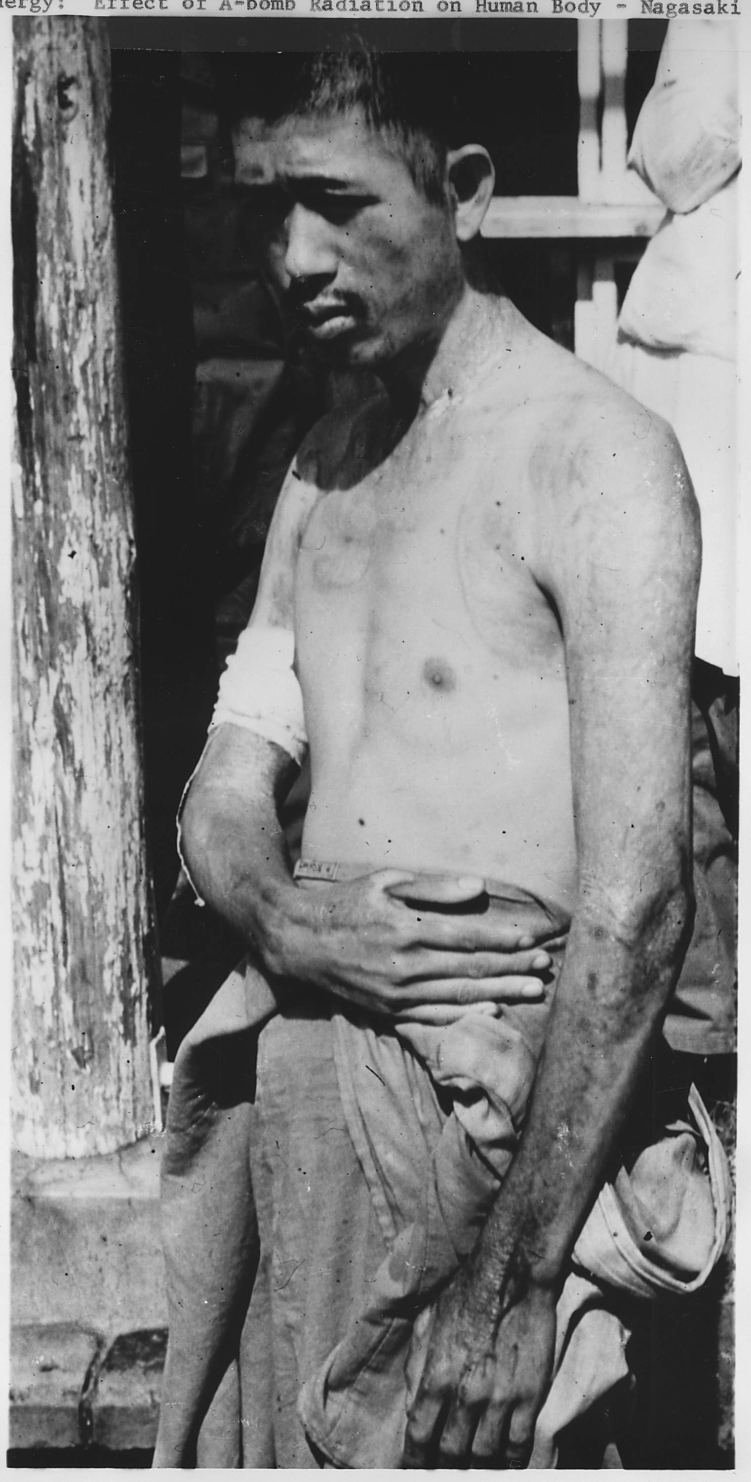 Scope and content: Rayburn of the left shoulder showing protection effect of thin clothing.